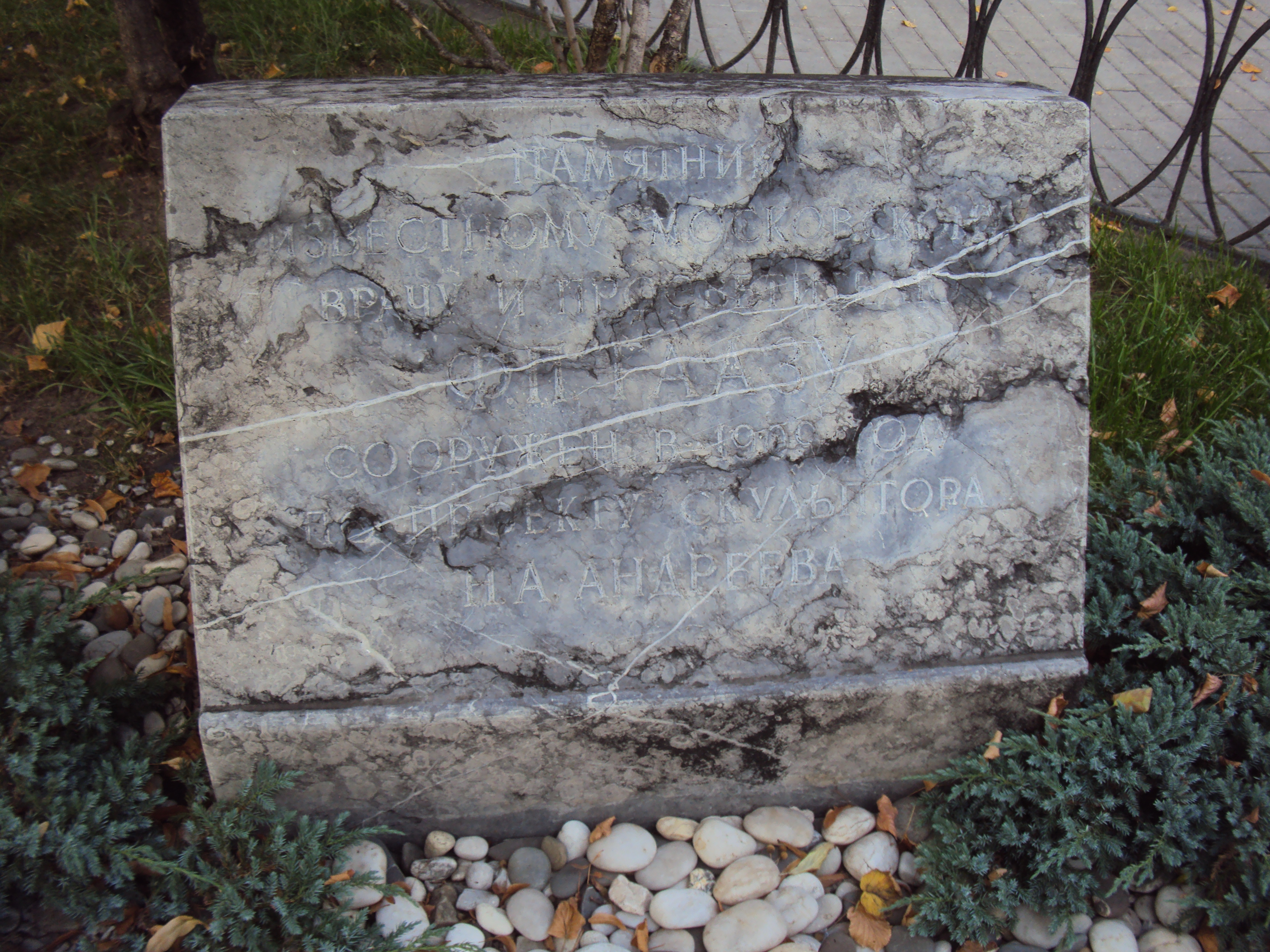 Granite slab to the monument F. P. Haass